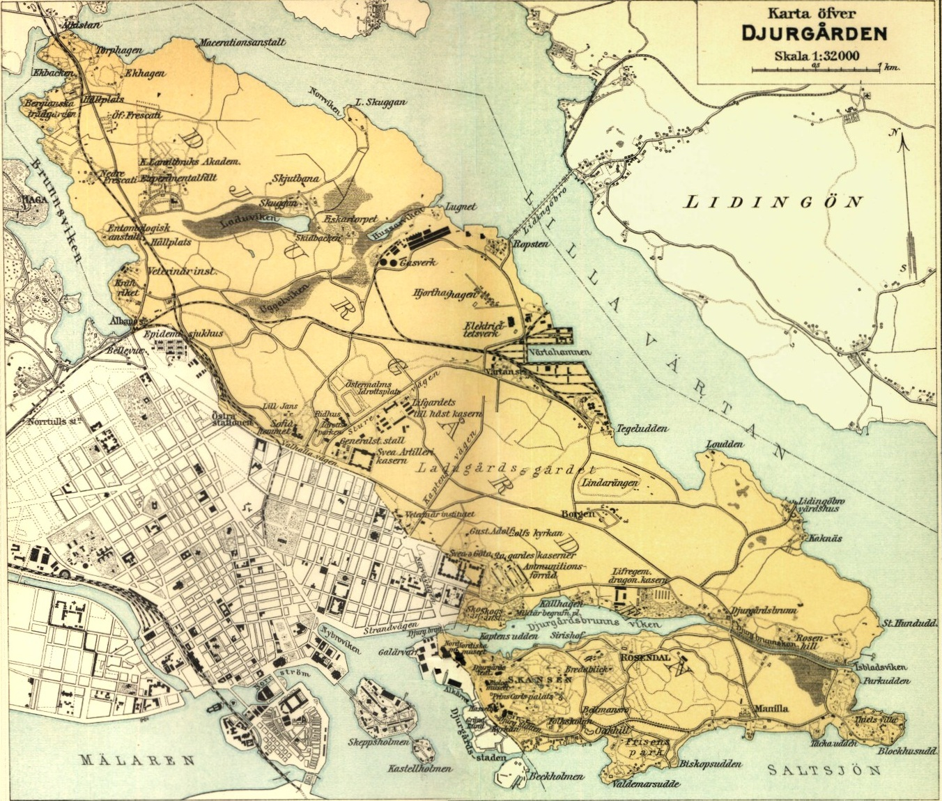 Map of Djurgården, Stockholm, Sweden